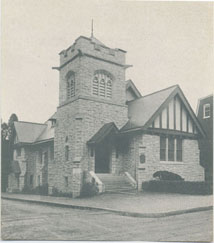 picture of Church of Our Father, Unitarian, sw corner of Chestnut and Pine Streets, Lancaster PA, prior to landscaping, architectural, and public-utility additions